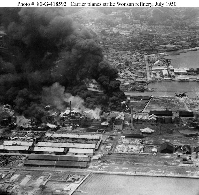 Wonsan Oil Refinery, Wonsan, North Korea, burning after being struck by USS Valley Forge (CV-45) aircraft on 18 July 1950. Photograph may have been taken on 19 July, when smoke from these fires was visible from the carrier, operating at sea off the Korean east coast.